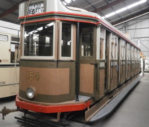 Stored in Sydney Tramway Museum in Loftus